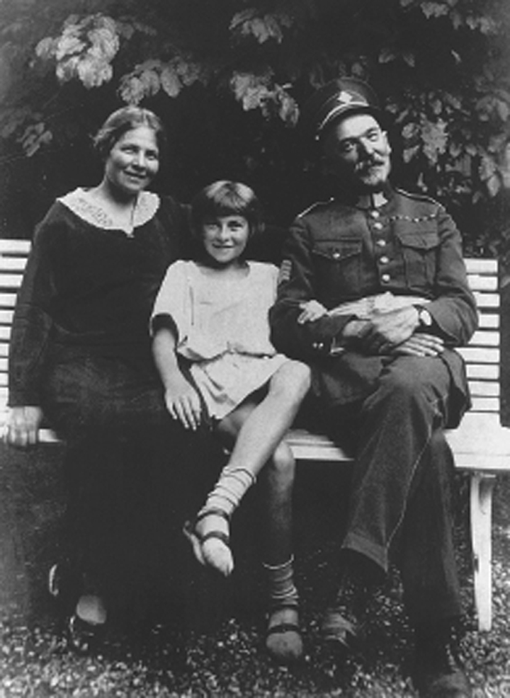 Writers J. G. Tajovský, H. Gregorová a Dagmar Prášilová (their daughter)